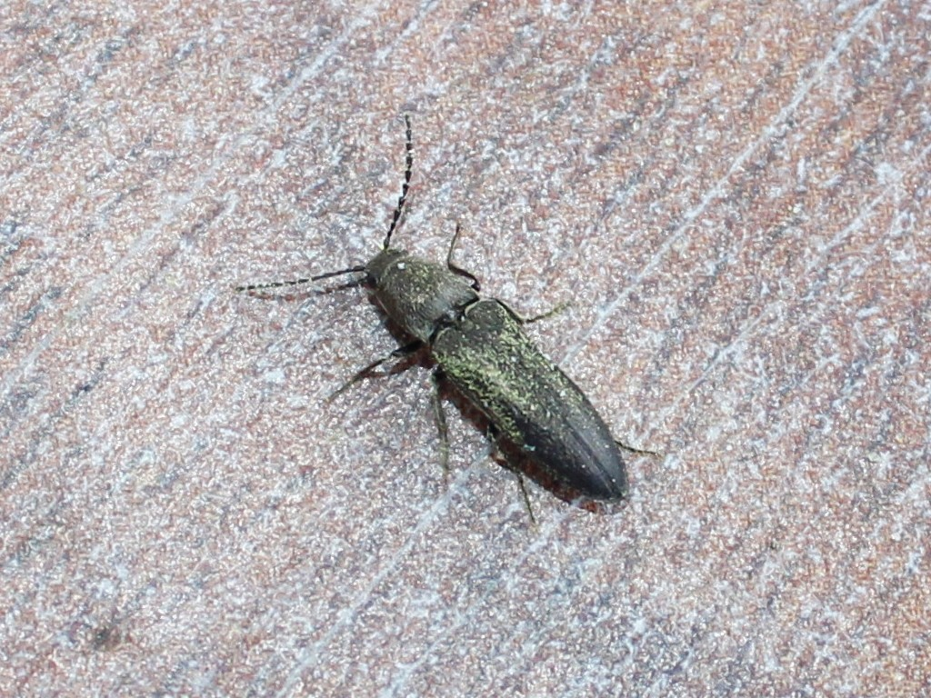 Crepidophorus mutilatus covered with pollen dust. From Rīga (Latvia)